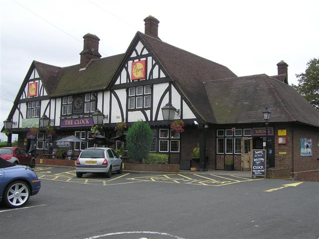 The Clock, Birmingham Looking south